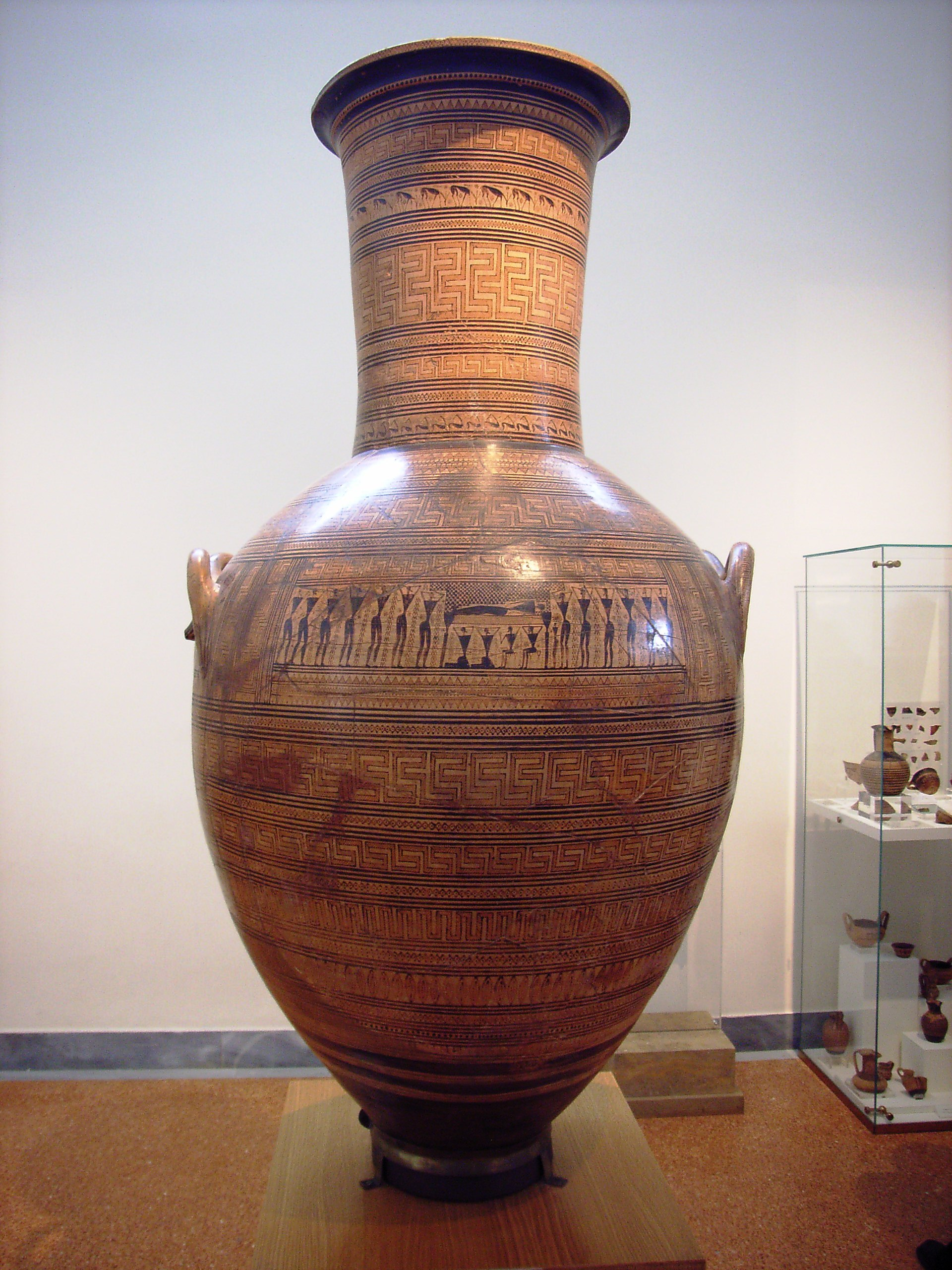 Athenian funerary amphora, Late geometric I. The main scene shows the prothesis and mourning for the dead. Over the bier is the shroud. Men, women and a child lament with the hands on their heads in the usual mourning gesture.